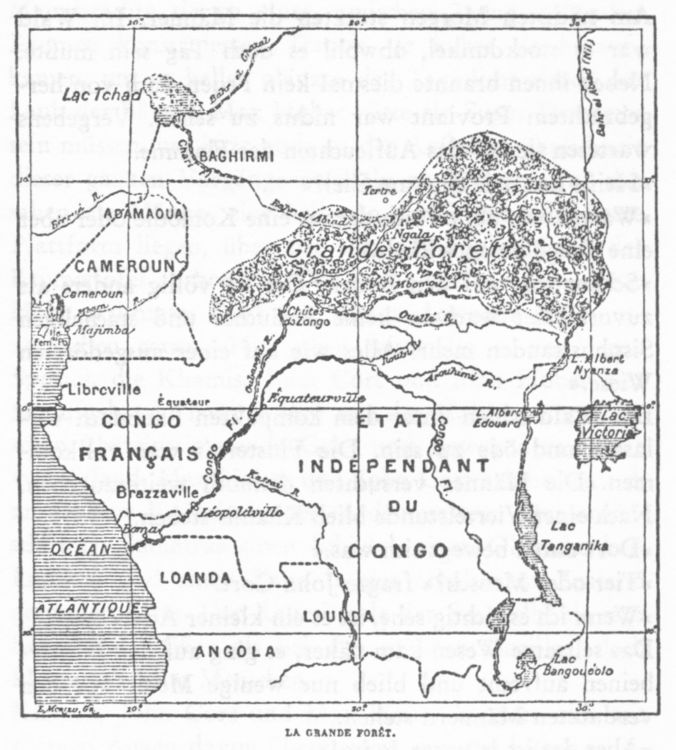 An illustration from Jules Verne's novel "The Village in the Treetops" (lit. "The Aerial Village", 1901) drawn by George Roux.